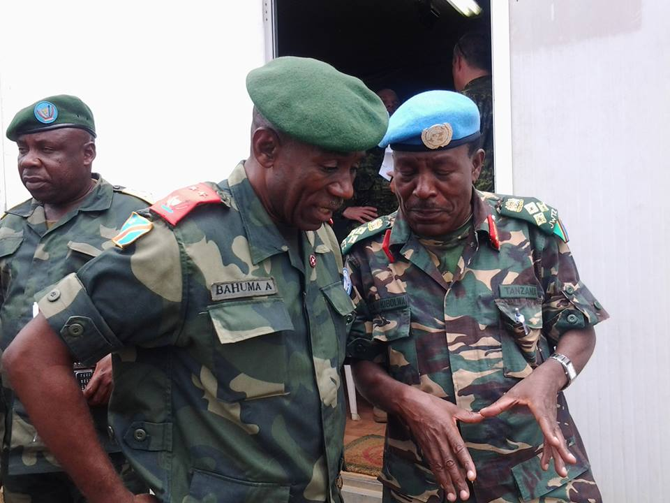 Major General Lucien Bahuma (left foreground of photo) was « a great man and an important partner for MONUSCO», said the Special Representative of the United Nation Secretary – General in the DR Congo, Martin Kobler, after the official announcement, on 31 August 2014, of the death of the commander of the North Kivu 8th Military Region (FARDC).